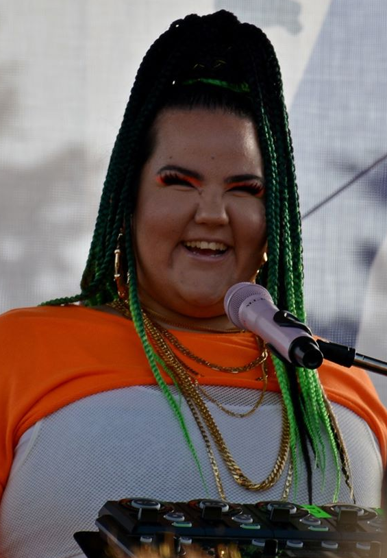 Netta during Sofia Pride 2019